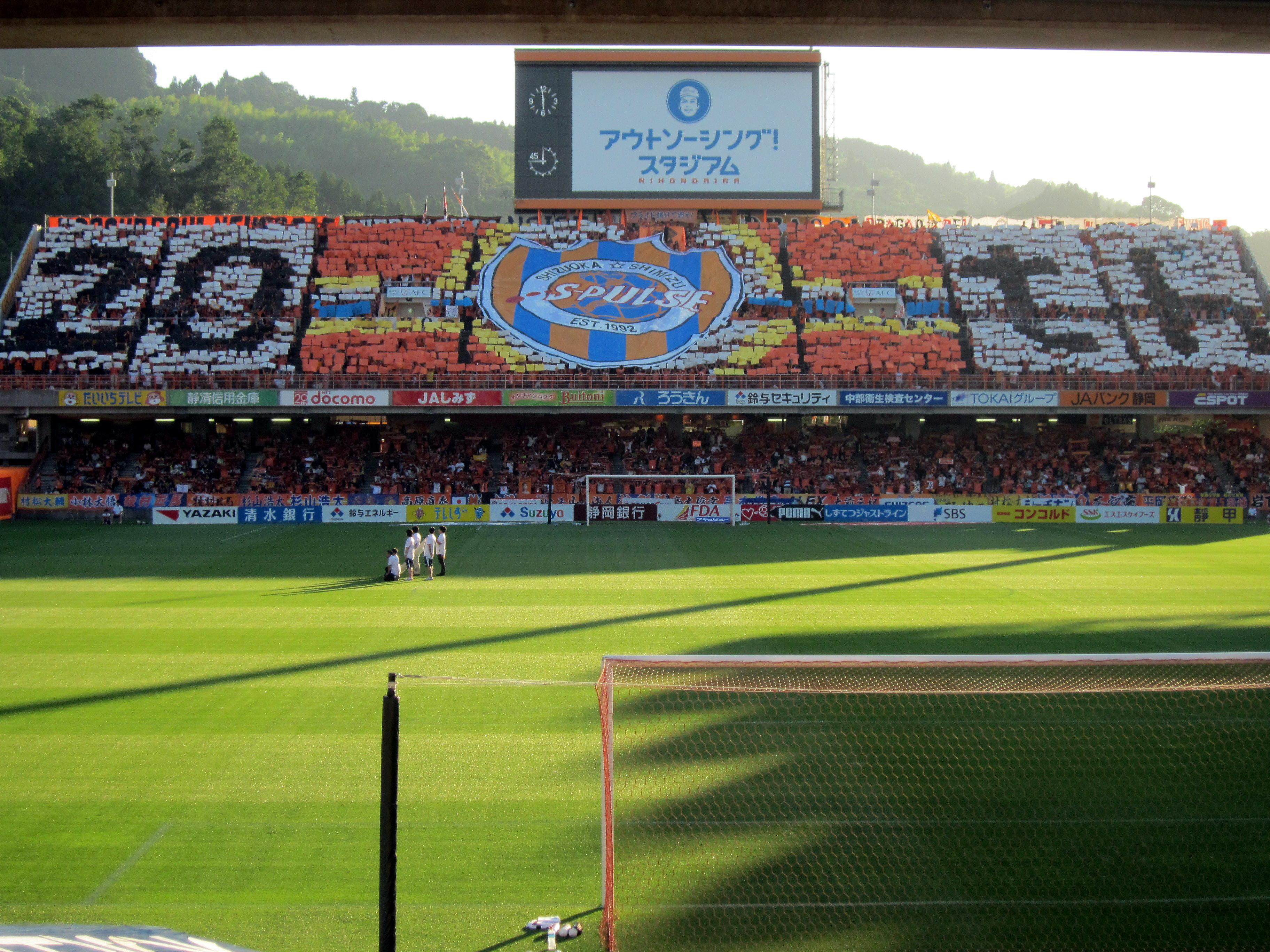 Nihondaira Stadium 20120707